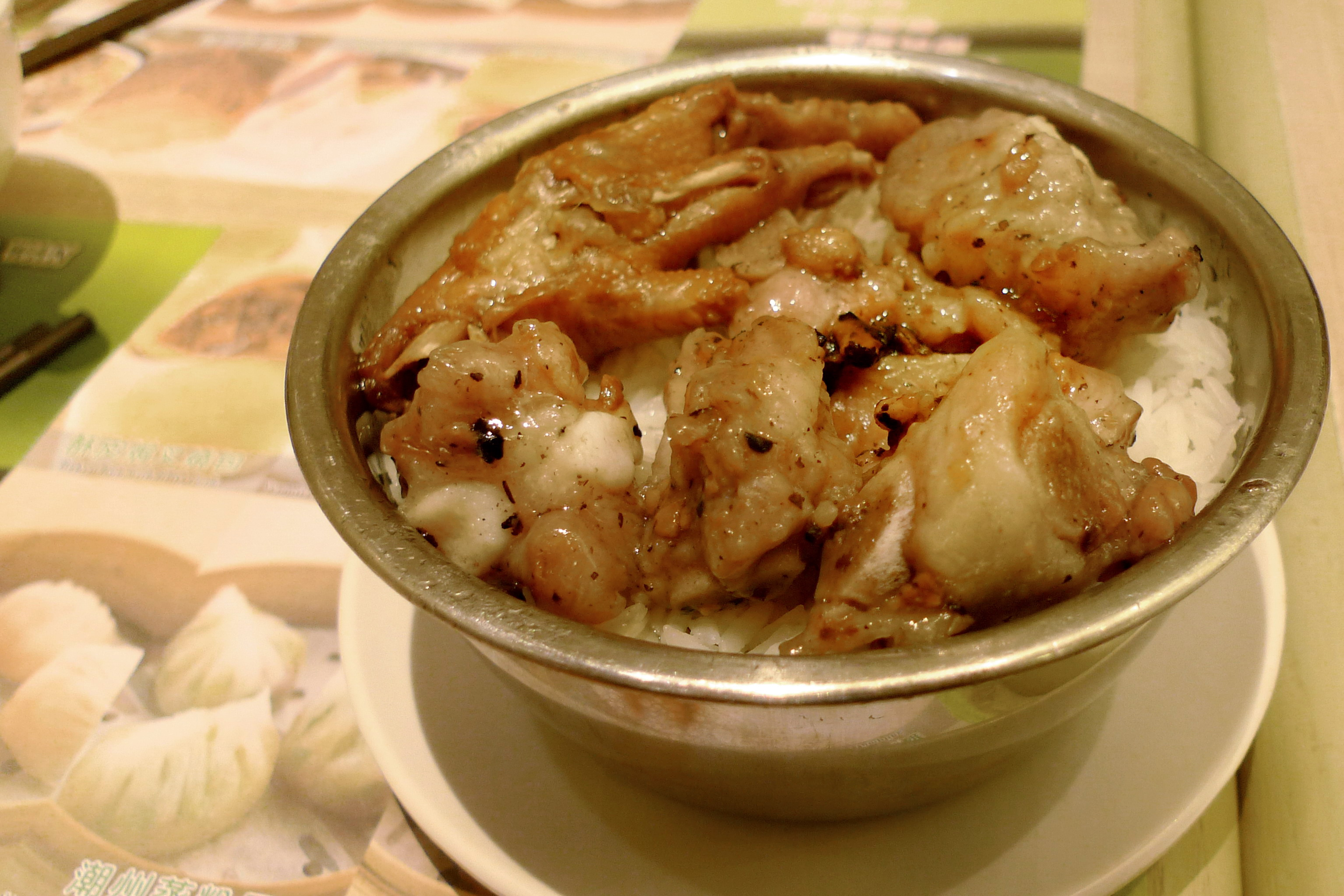 Steamed Rice with Chicken Feet and Spare Ribs